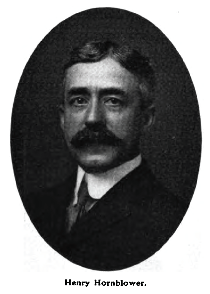 Portrait of Hornblower & Weeks founder, Henry Hornblower